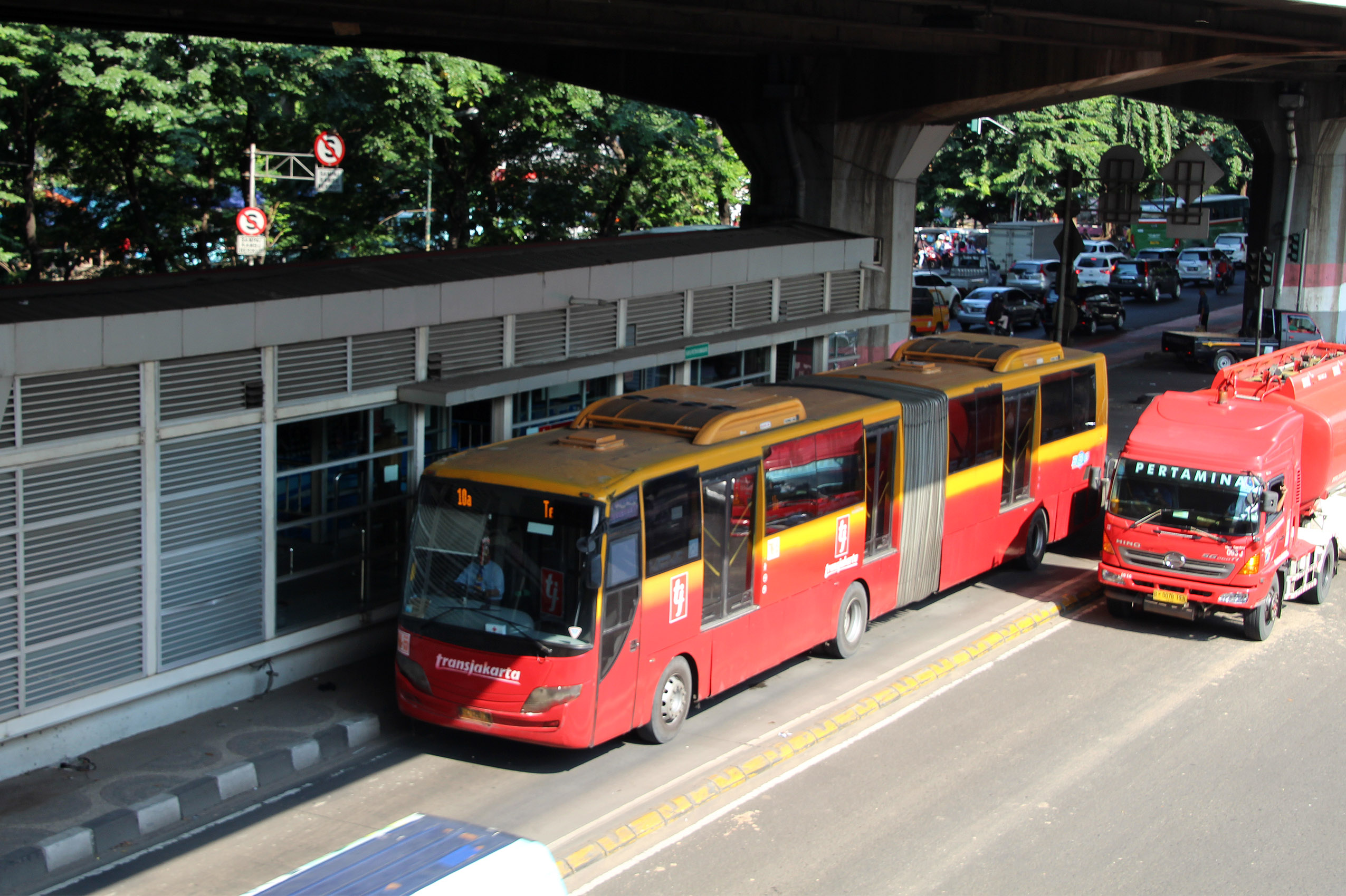 Transjakarta articulated bus Corridor 10 at K10.11 Halte Kayu Putih Rawasari, Central Jakarta.